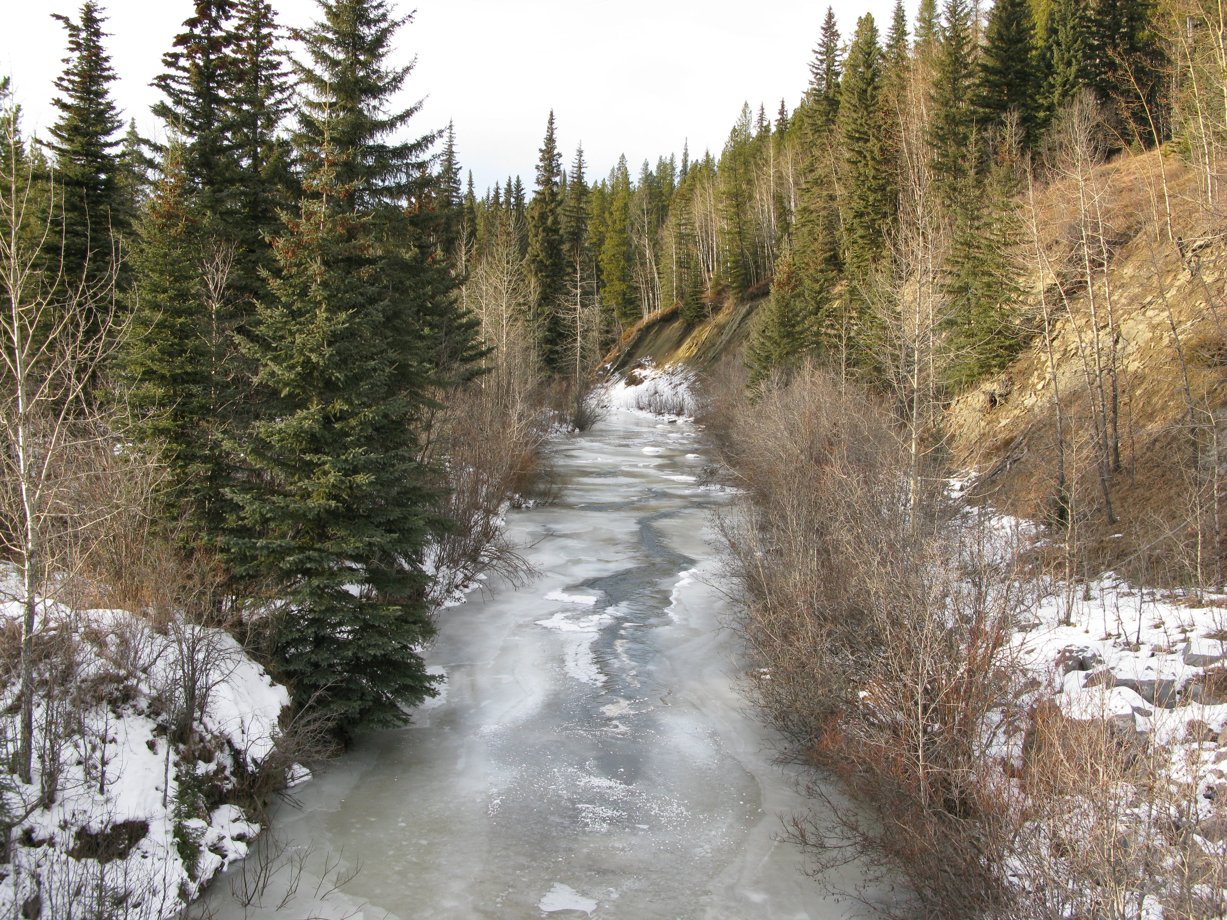 Erik Lizee